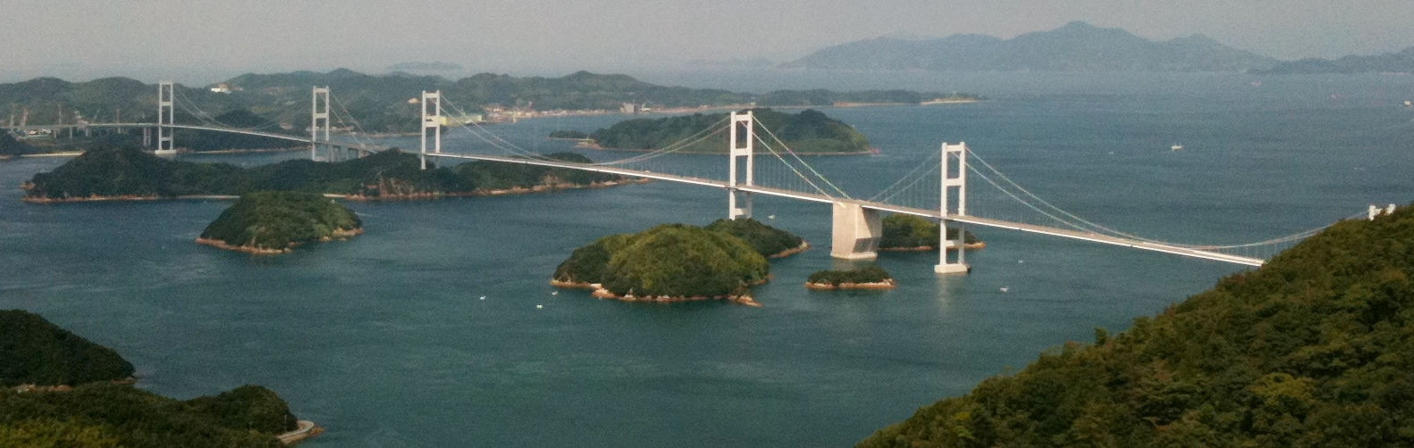 The Kurushima-Kaikyō Bridge between Imabari and Yoshiumi in Ehime Prefecture, Japan